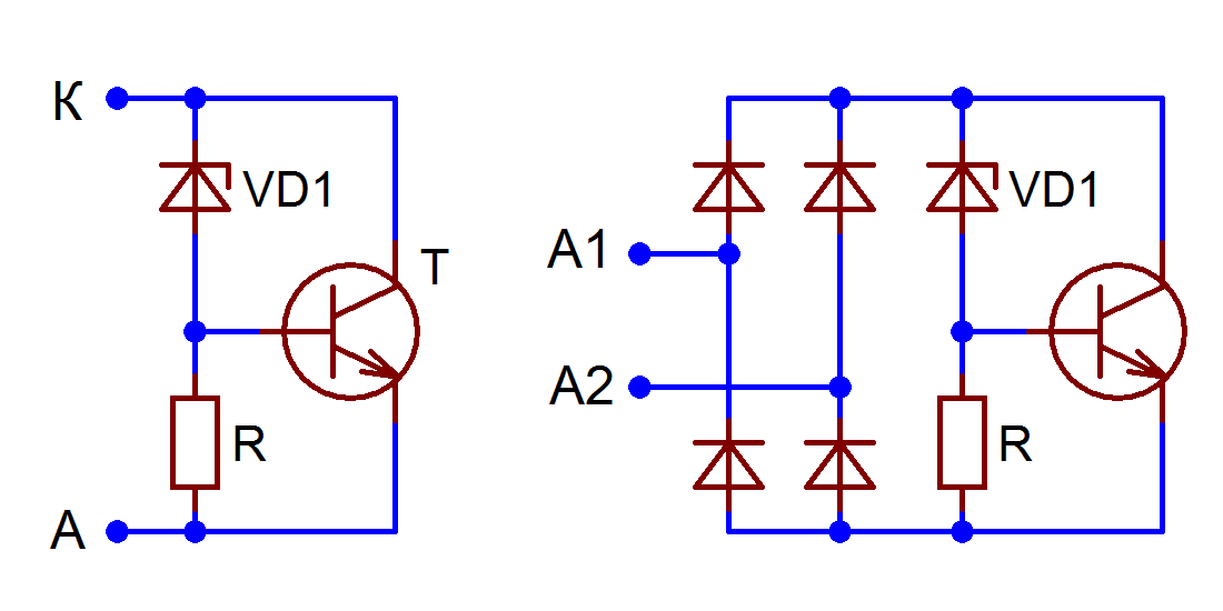 Simplest amplified-current zener topology (left) and its bidirectonal version